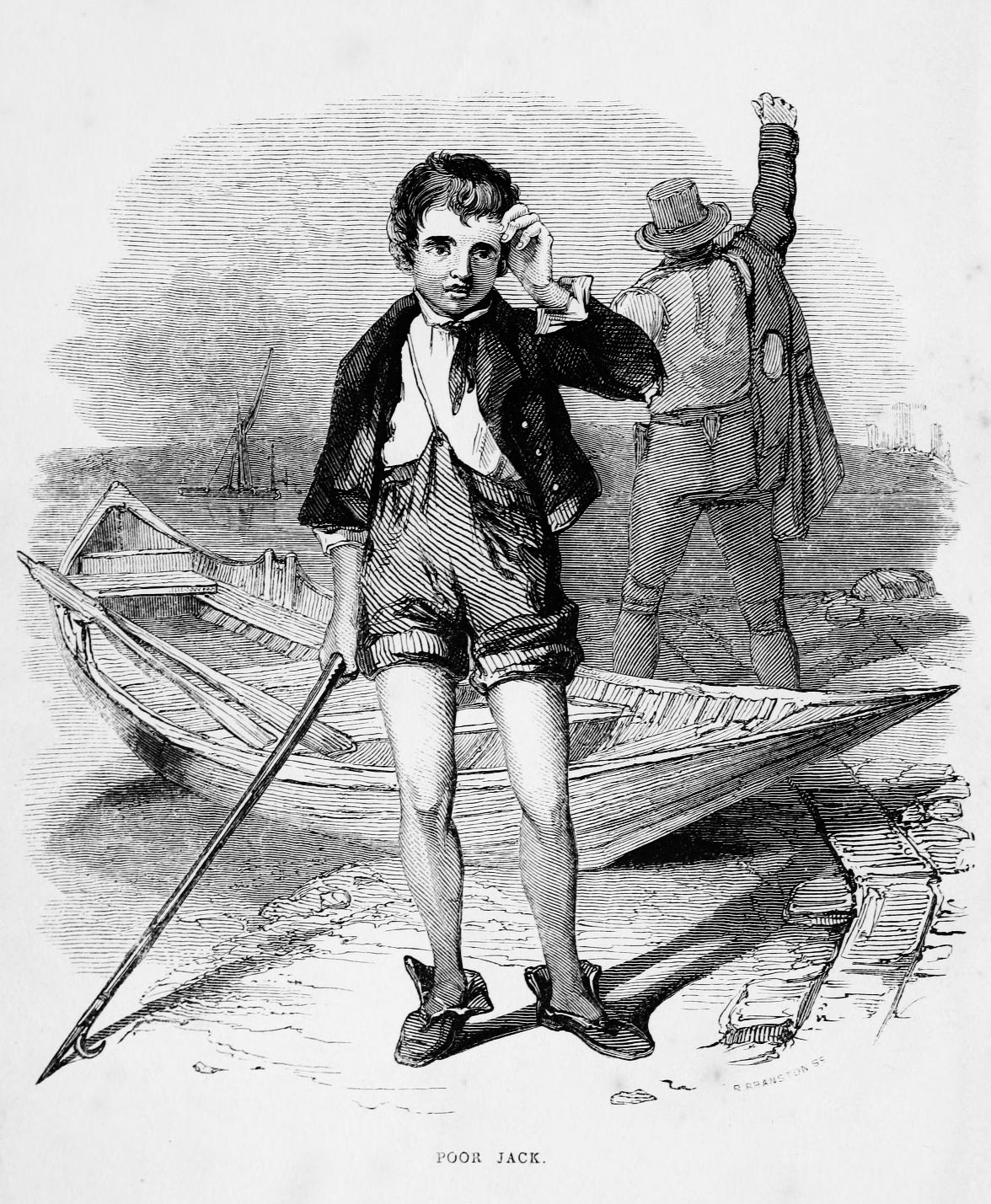 1st edition frontispiece